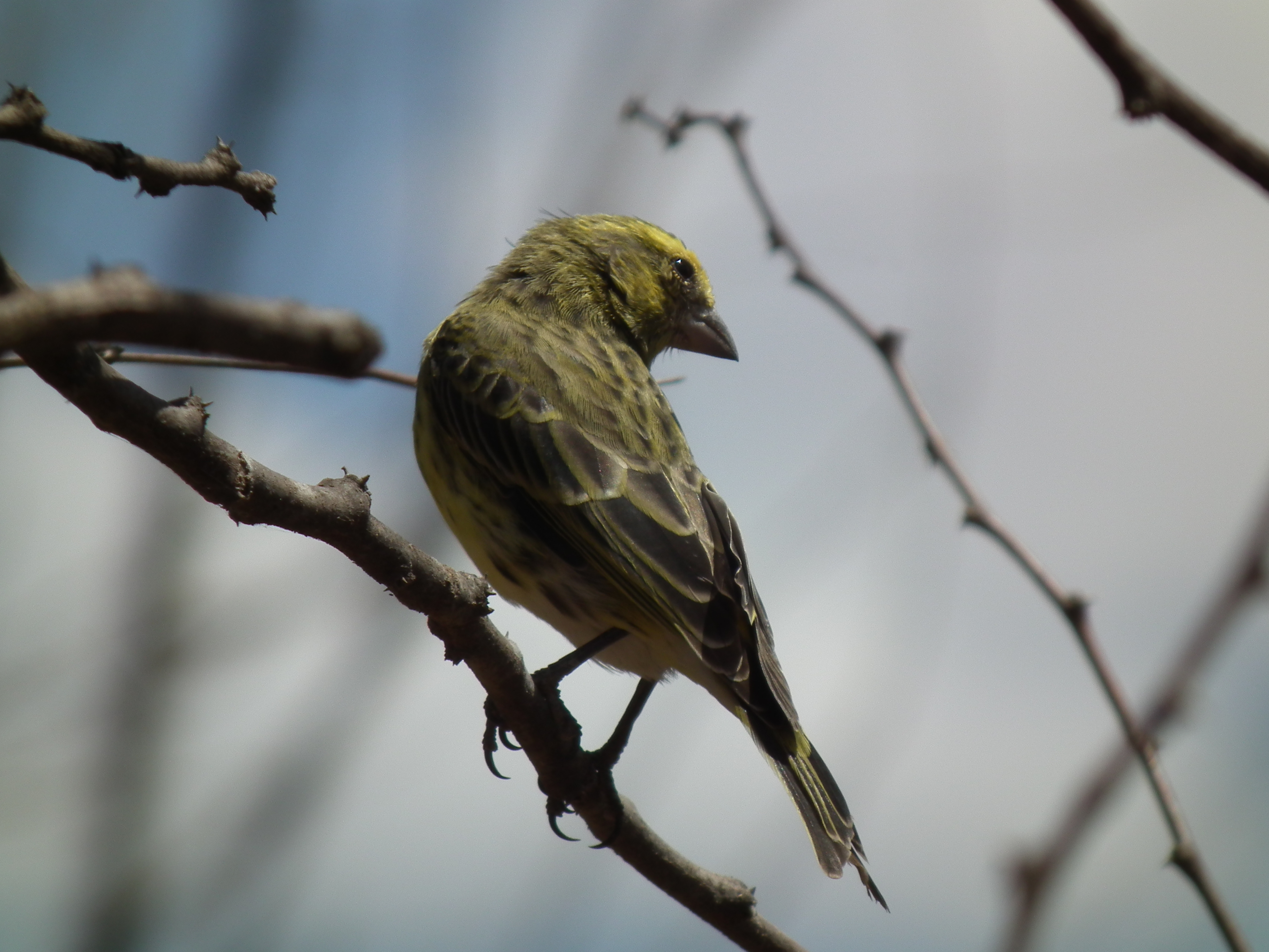 Serinus dorsostriatus (Serinus dorsostriatus) in Tanzania